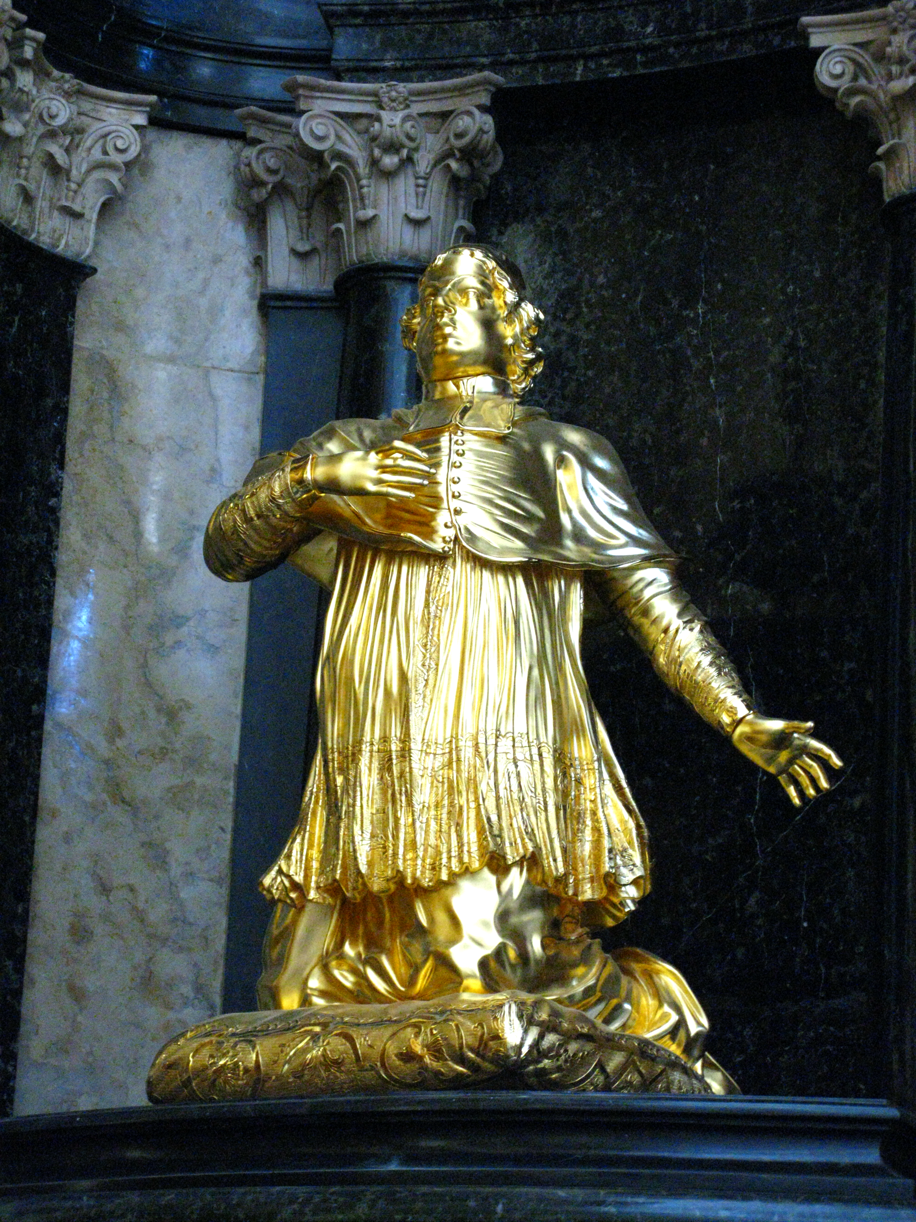 Tomb effigy of Michał Stefan radziejowski Primate of Poland